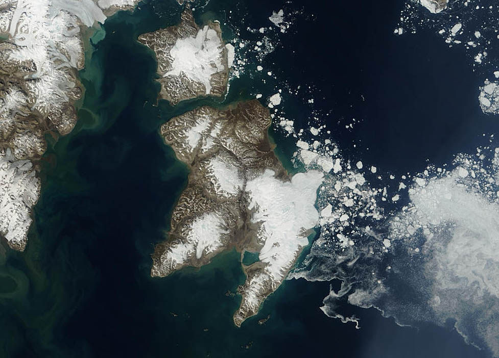 Terra MODIS satellite image of Edgeøya (bottom) and Barentsøya (top), Svalbard